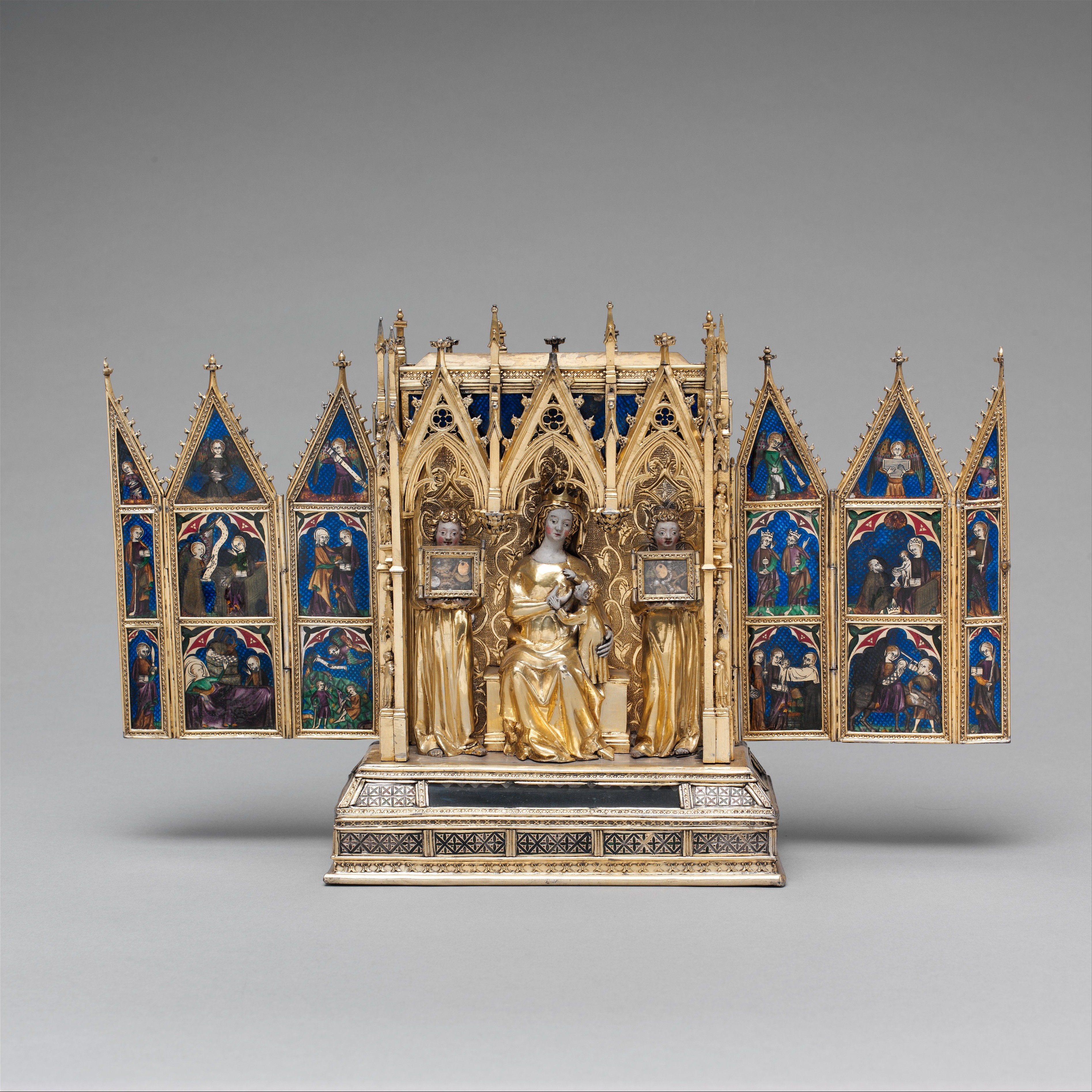 French; Reliquary; Enamels-Translucent